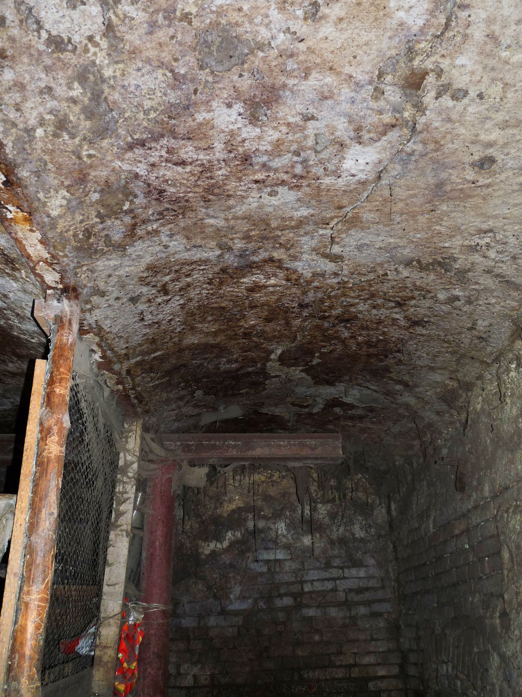 Vault of the building of the former mikveh in Strážov, Klatovy District, Czech Republic, nowadays used for farming purposes.